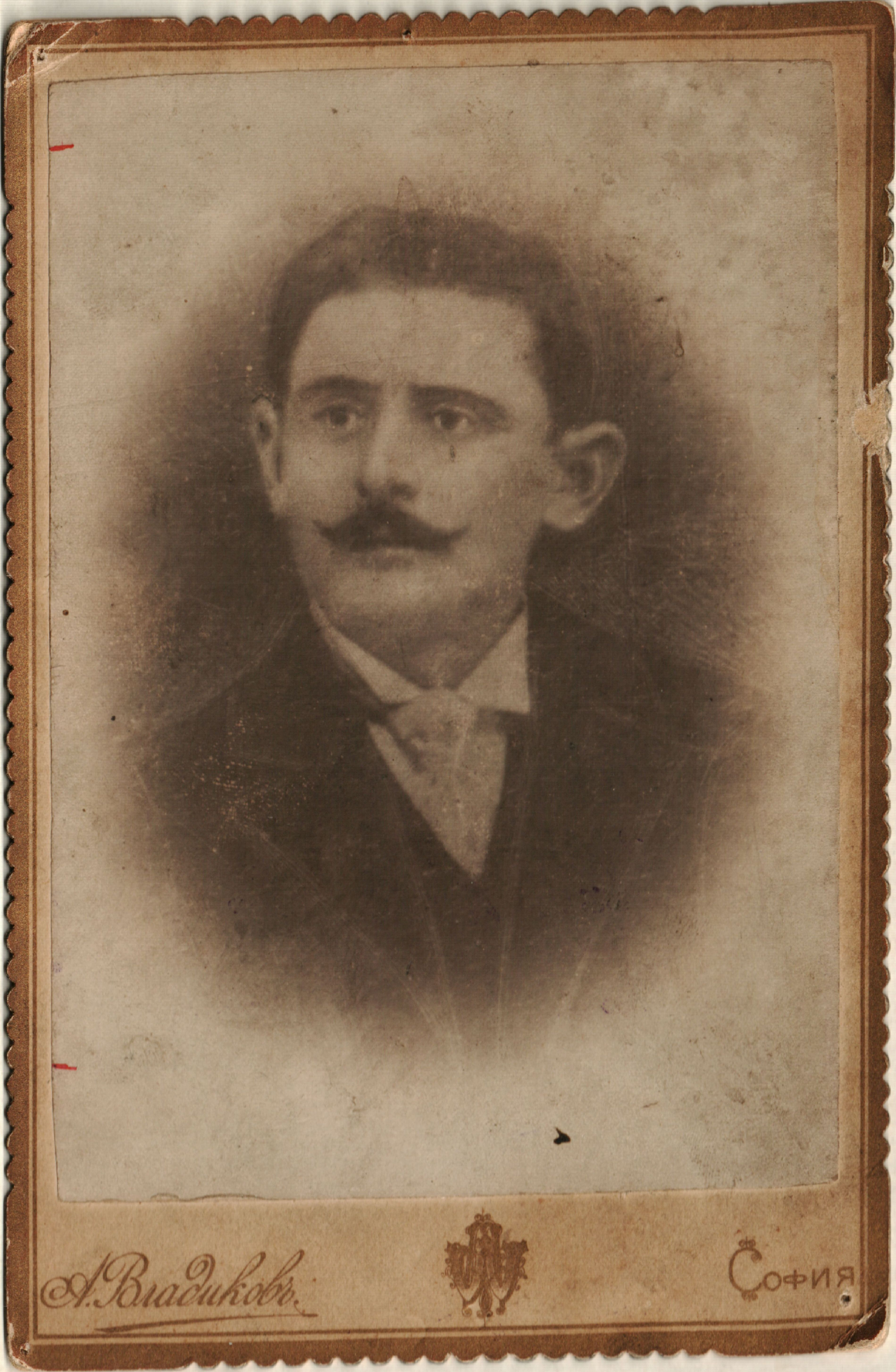 Argir Marinov